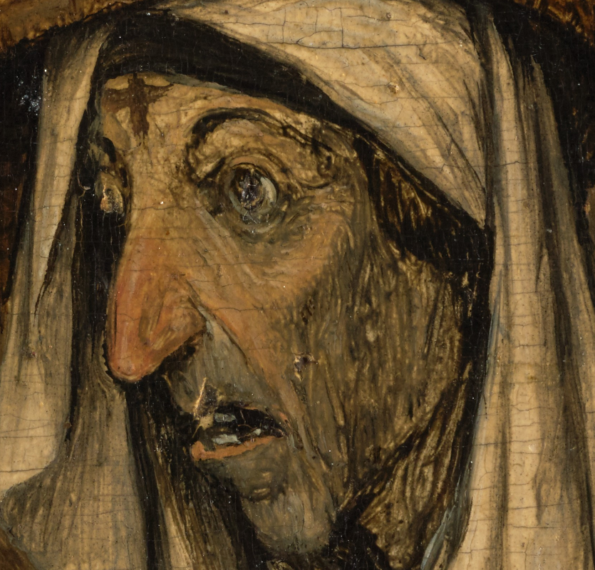 The Fight Between Carnival and Lent. Pieter Bruegel the Elder Year. 1559. Oil-on-panel.118 cm × 164 cm (46 in × 65 in). Kunsthistorisches Museum, Vienna. Frafment. The Face of Lent